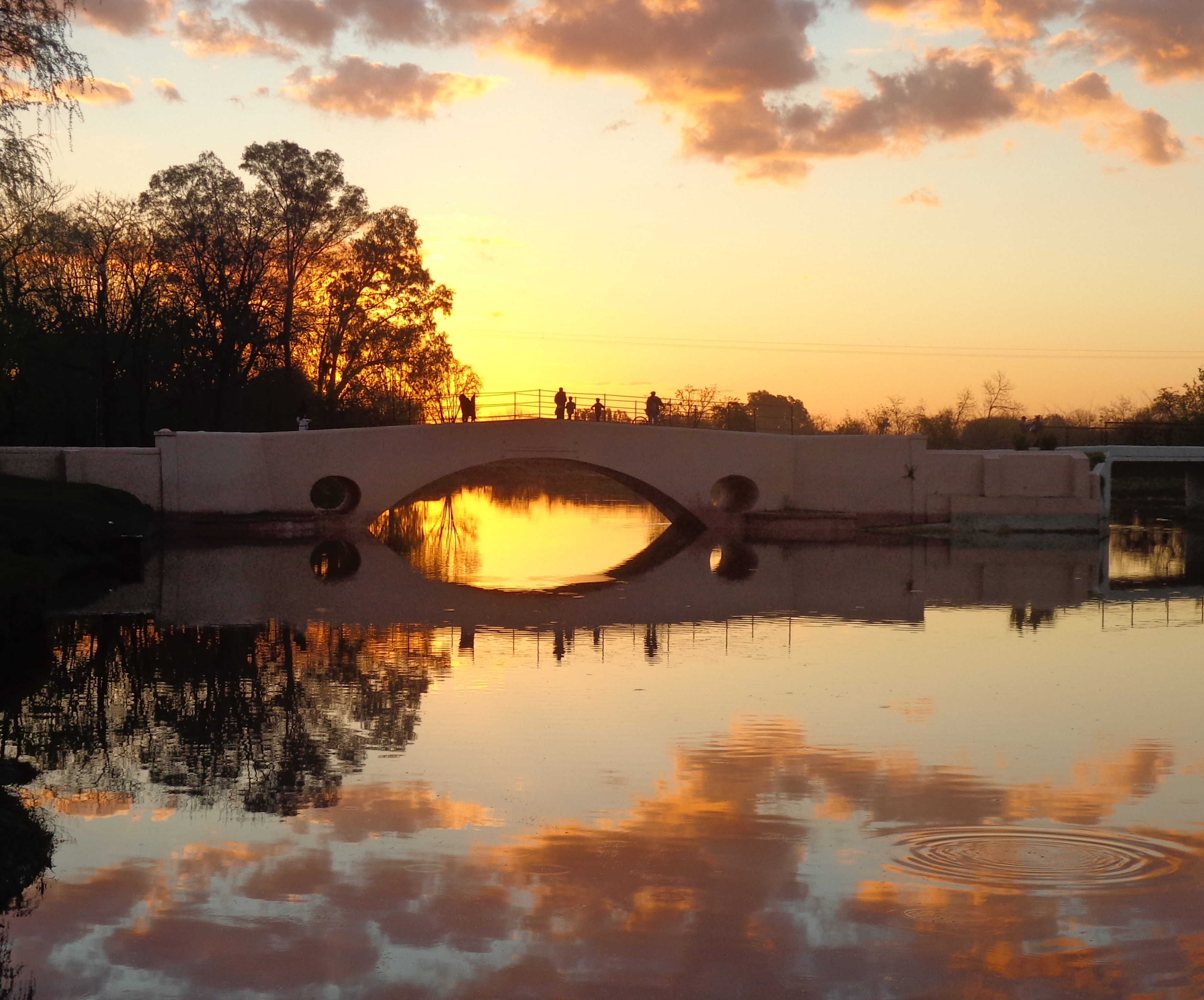 Sunset at "Puente Viejo", on the Areco River, in San Antonio de Areco, province of Buenos Aires, Argentina.